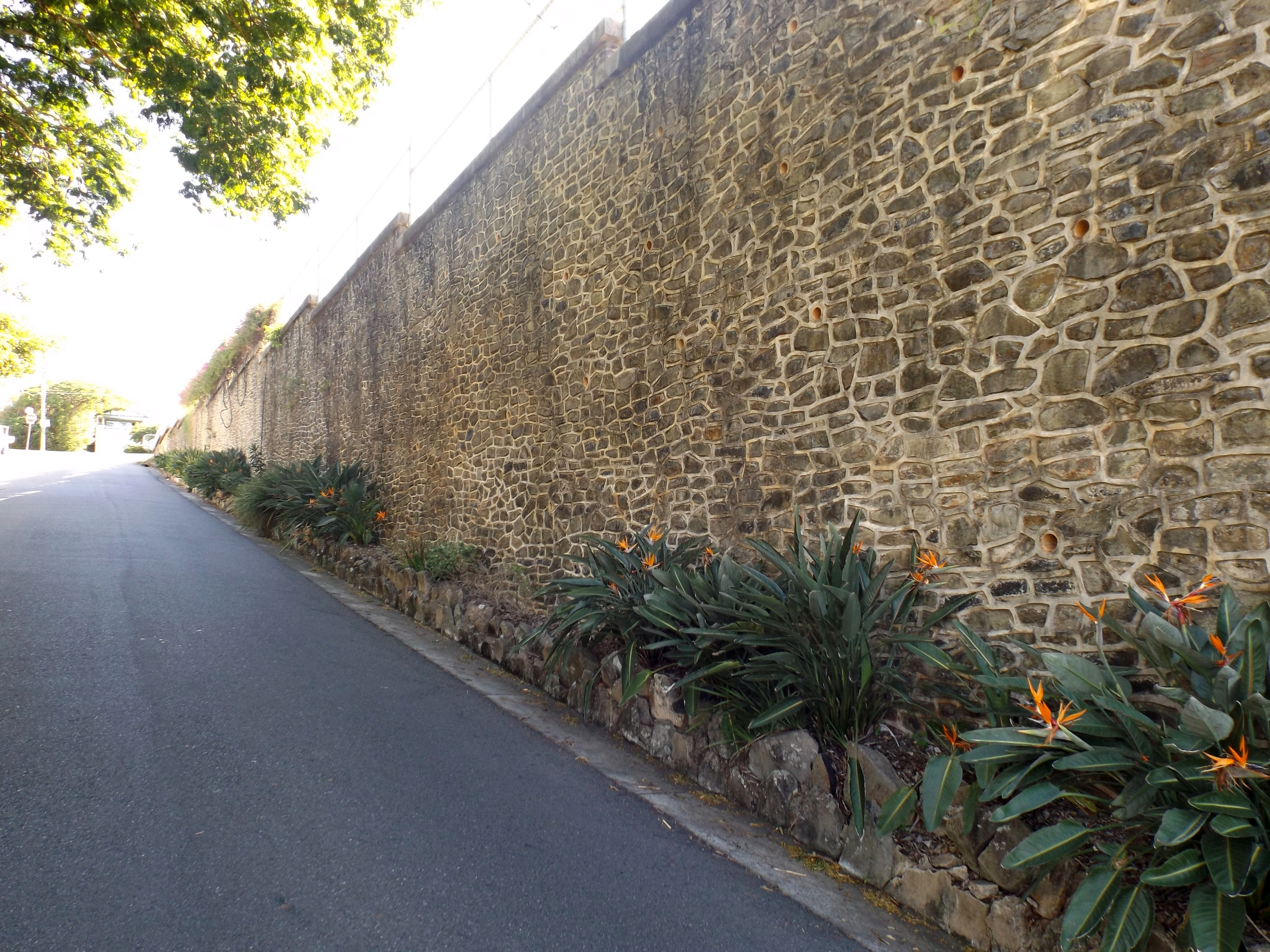 Photo of Manly Retaining Wall at Manly, Brisbane, Queensland, Australia.